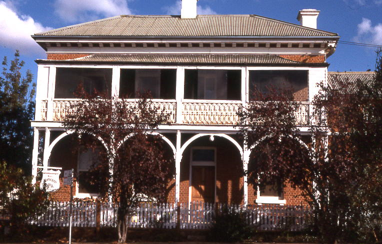 mudgee, australia